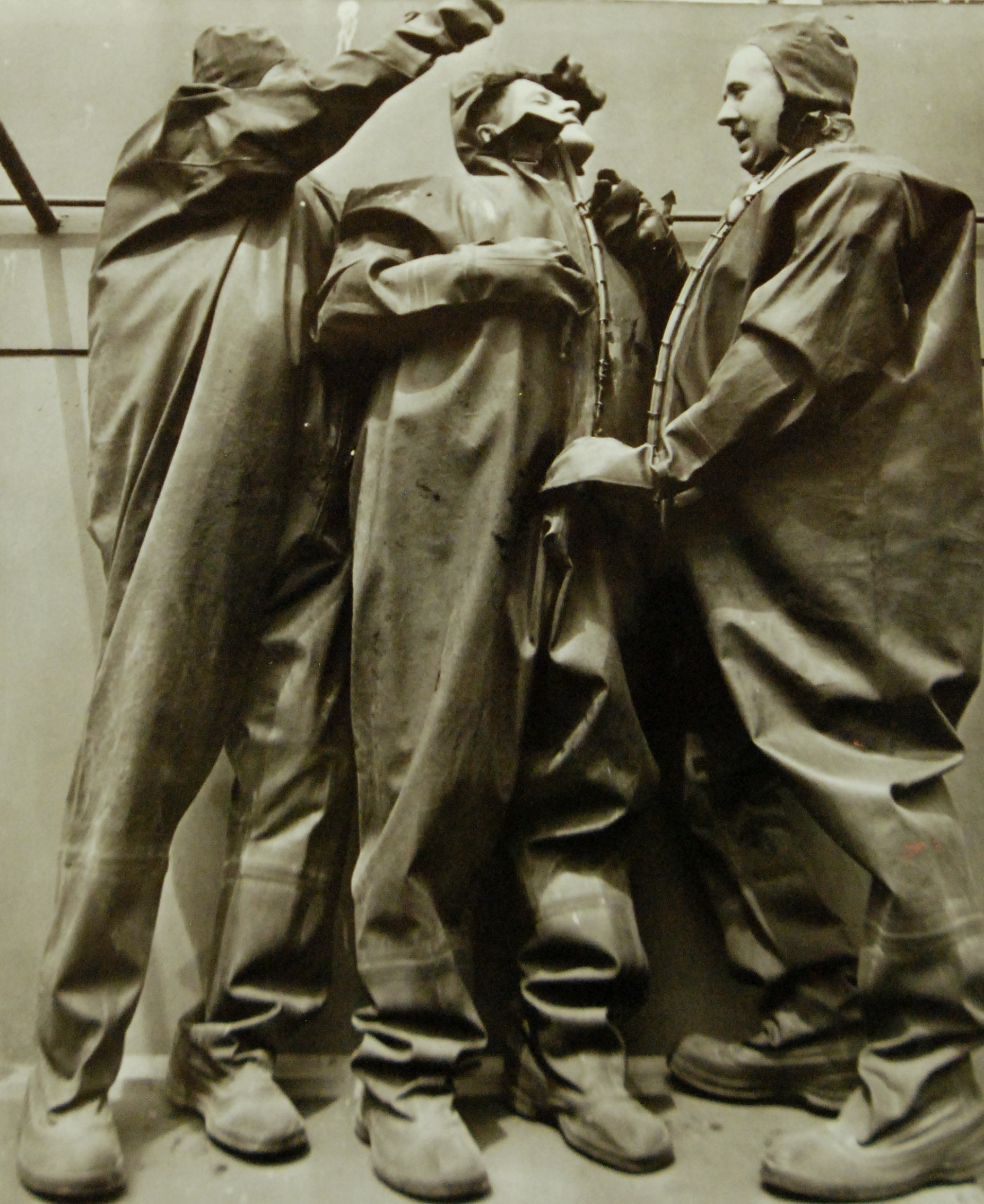 Lot-9433-7: These Are The Ships And The Men Who Deliver Oil To The Allies. Despite Axis submarines, the U.S. is continuing to deliver oil for the Allied war machine. This success is due chiefly to two things – tankers and men. The tankers carry their own “cargo insurance” – big guns for the U-boats, machine guns for enemy aircraft. The men who man them are tough, fearless and capable of meeting any opposition the enemy has to offer. These pictures, made aboard a U.S. tanker, show the men at work and some of the measures taken to protect them. Shown: Still another safety measure is the rubber kapok-packed suit that would keep the sailor afloat until he climbed into a raft. The suit can be donned in one minute, and water and concentrated food can be kept in the breast pockets. Office of War Information Photograph, 16-22 April 1942. Original photograph is small. (2015/12/18).